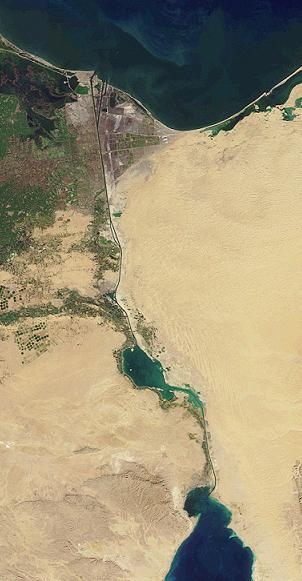 NASA image of the Suez Canal, taken by the MISR instrument on the Terra satellite on January 30, 2001. Cropped.